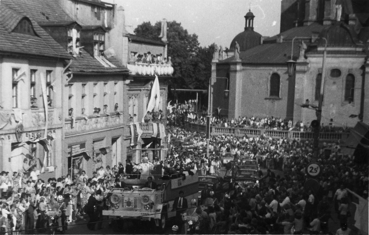 Ioannes Paulus II during his pilgrim to Poland in 1979. Photo taken in Gniezno, Tumska street, view in the direction of cathedra.